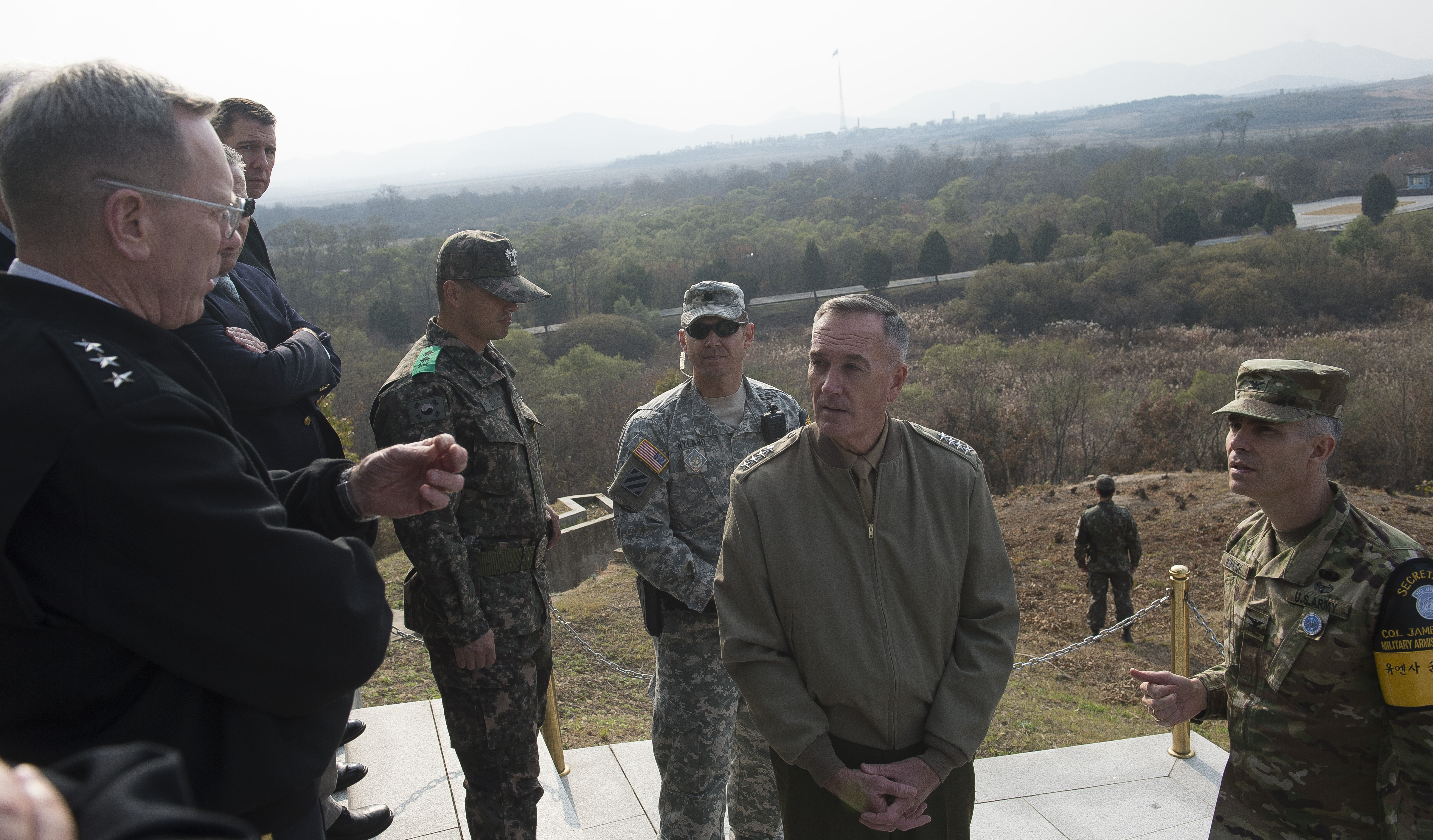 Marine Corps Gen. Joseph F. Dunford Jr., 19th Chairman of the Joint Chiefs of Staff, is briefed by U.S. Army Lt. Gen. Bernie Champoux, commanding general 8th U.S. Army/ Chief of Staff United Nations command, and U.S. Army Col. James Minnich, secretary of the United Nations Command Military Armistice Commission, during his visit to the Demilitarized Zone in the Republic of Korea, Nov. 2, 2015 (DoD photo by Navy Petty Officer 2nd Class Dominique A. Pineiro)